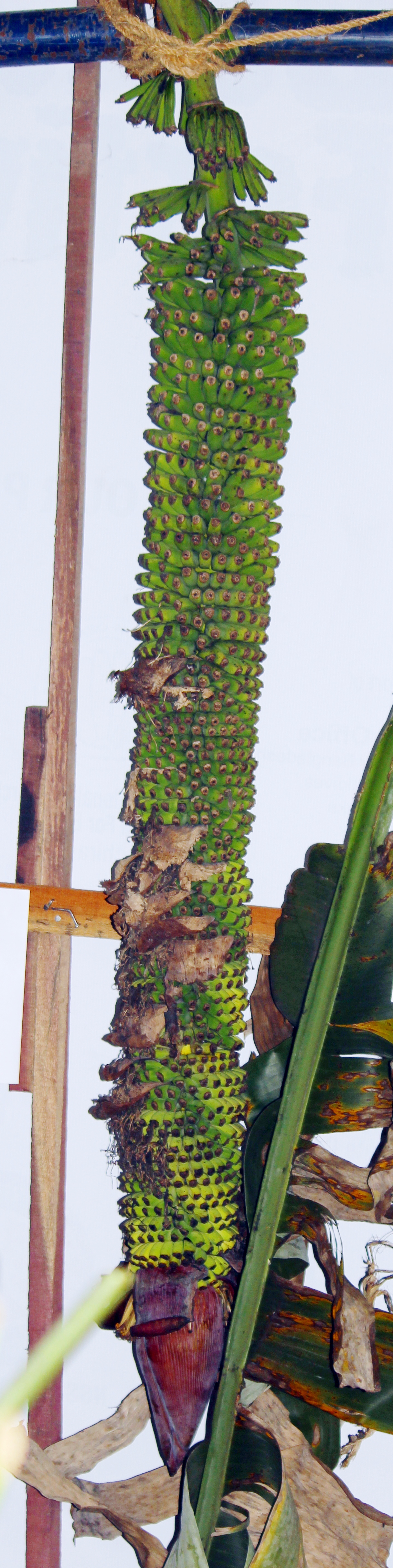 Banana Thousand Piece Poovan